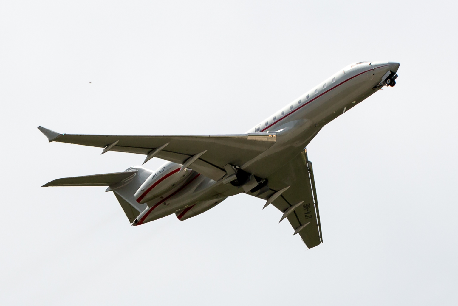 Aircraft spotting at Geneva airport